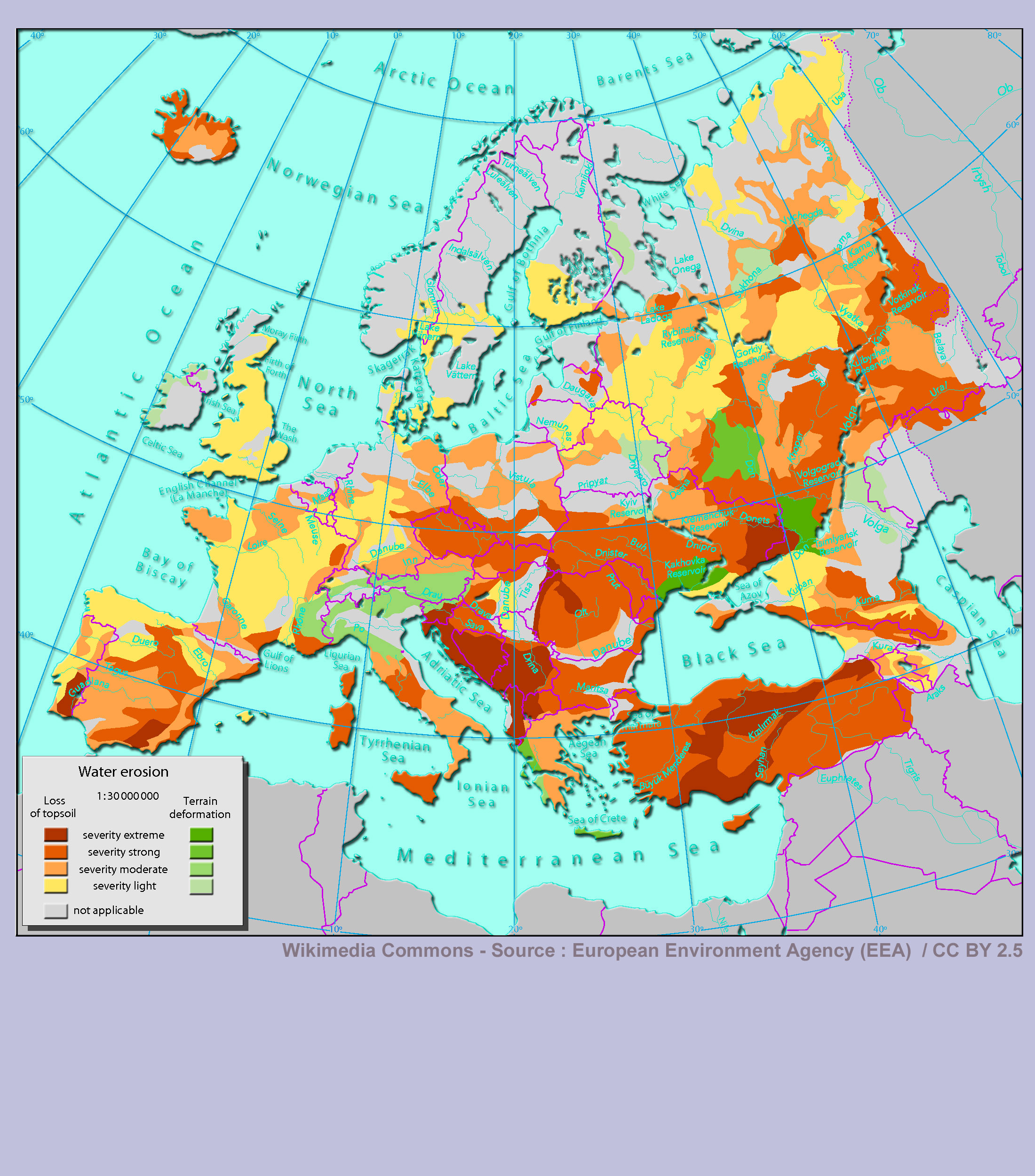 Water erosion in Europe, 1993